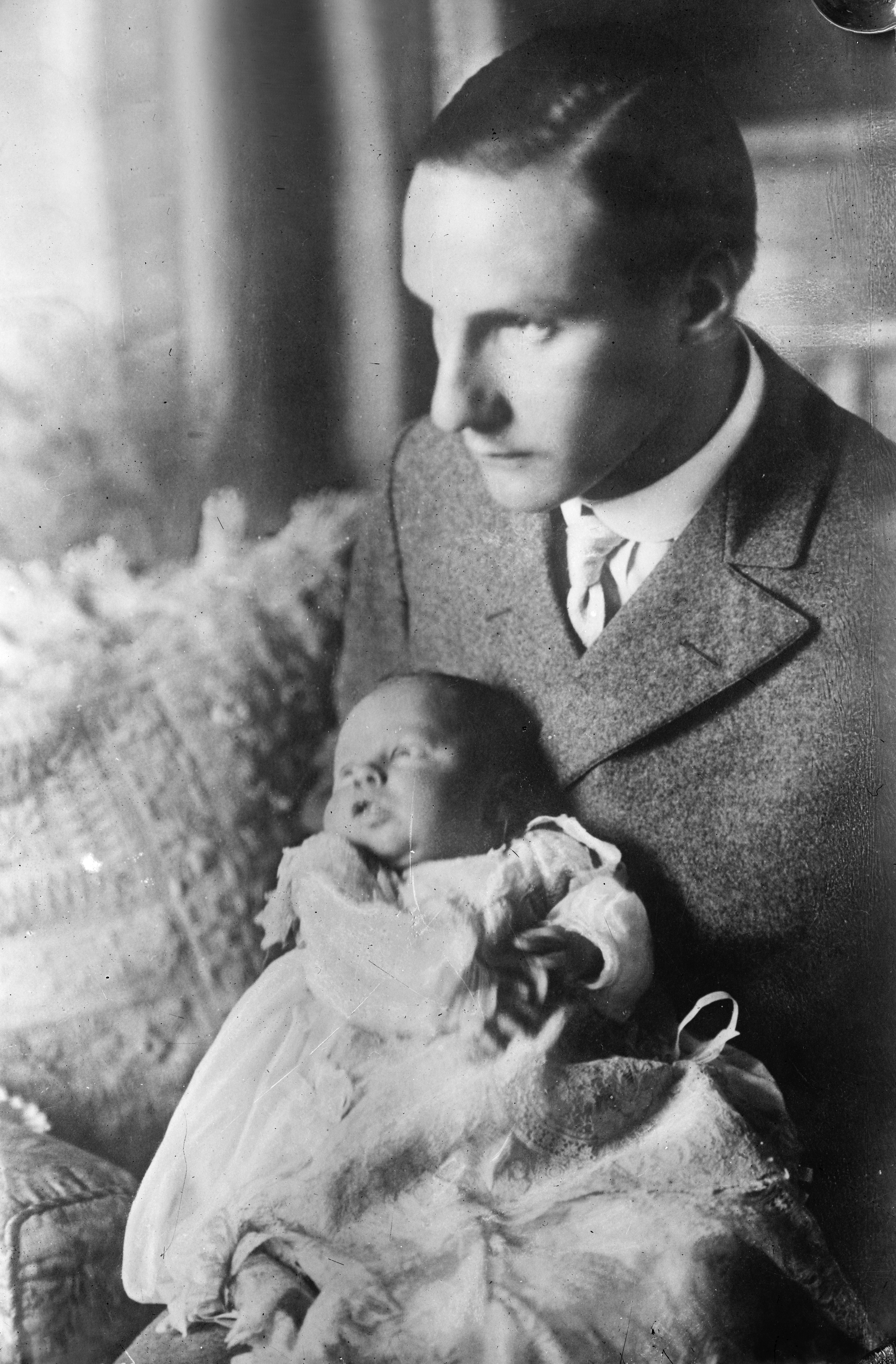 Infante Alfonso, Duke of Galliera, with his first son Alvaro in 1910.